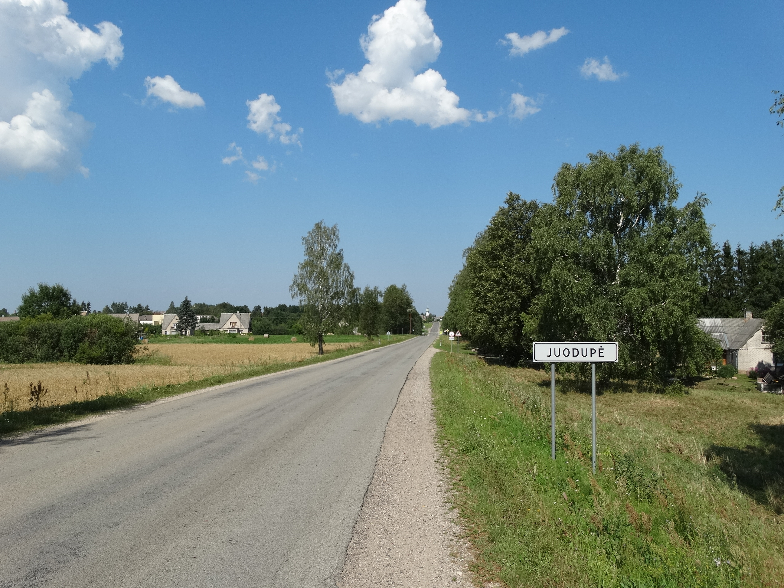 Juodupė, Rokiškis District, Lithuania